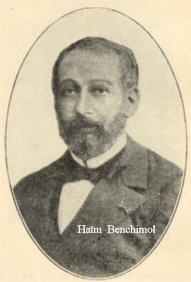 Retrato de Haim Benchimol